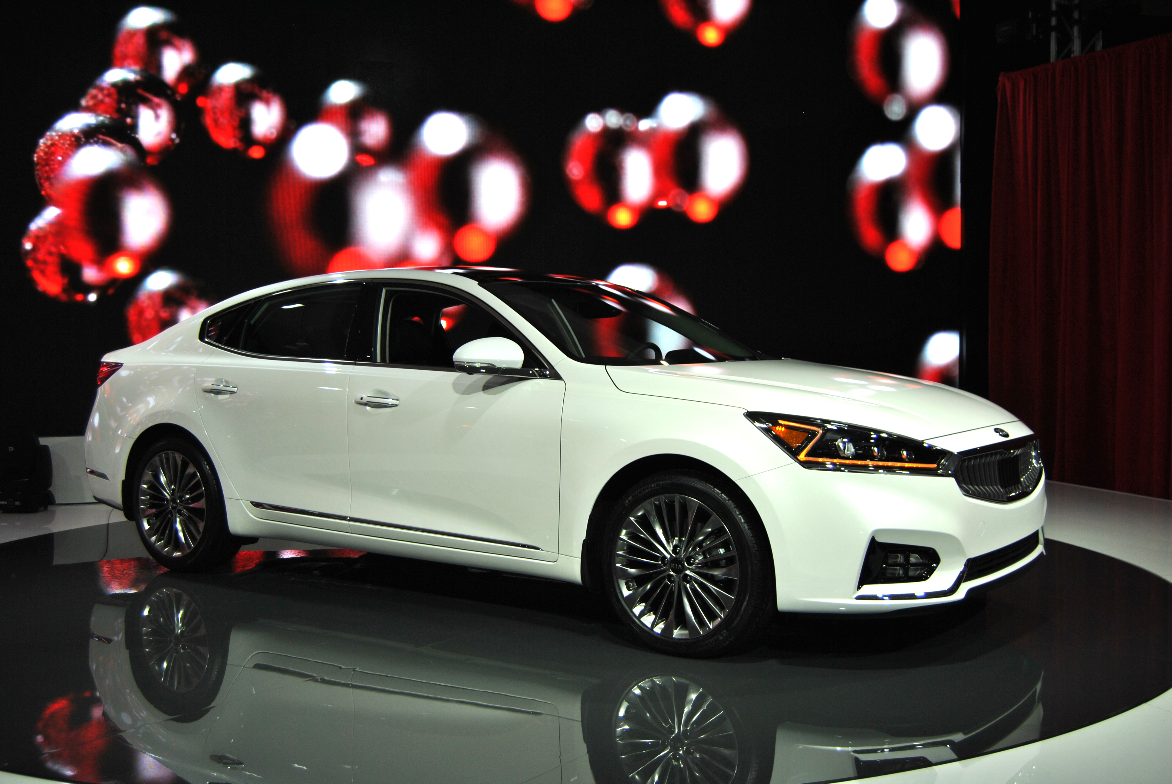 2017 Kia Cadenza (YG) shown at the 2017 Canadian International Auto Show.